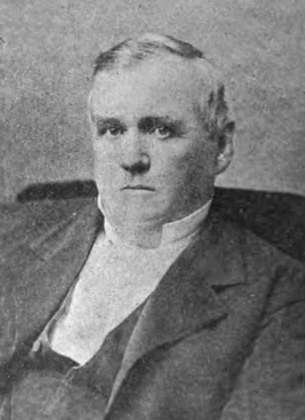 Ohio politician and writer Addison Peale Russell.